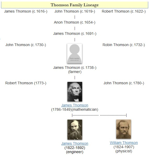 Original version: James Thomson (farmer)